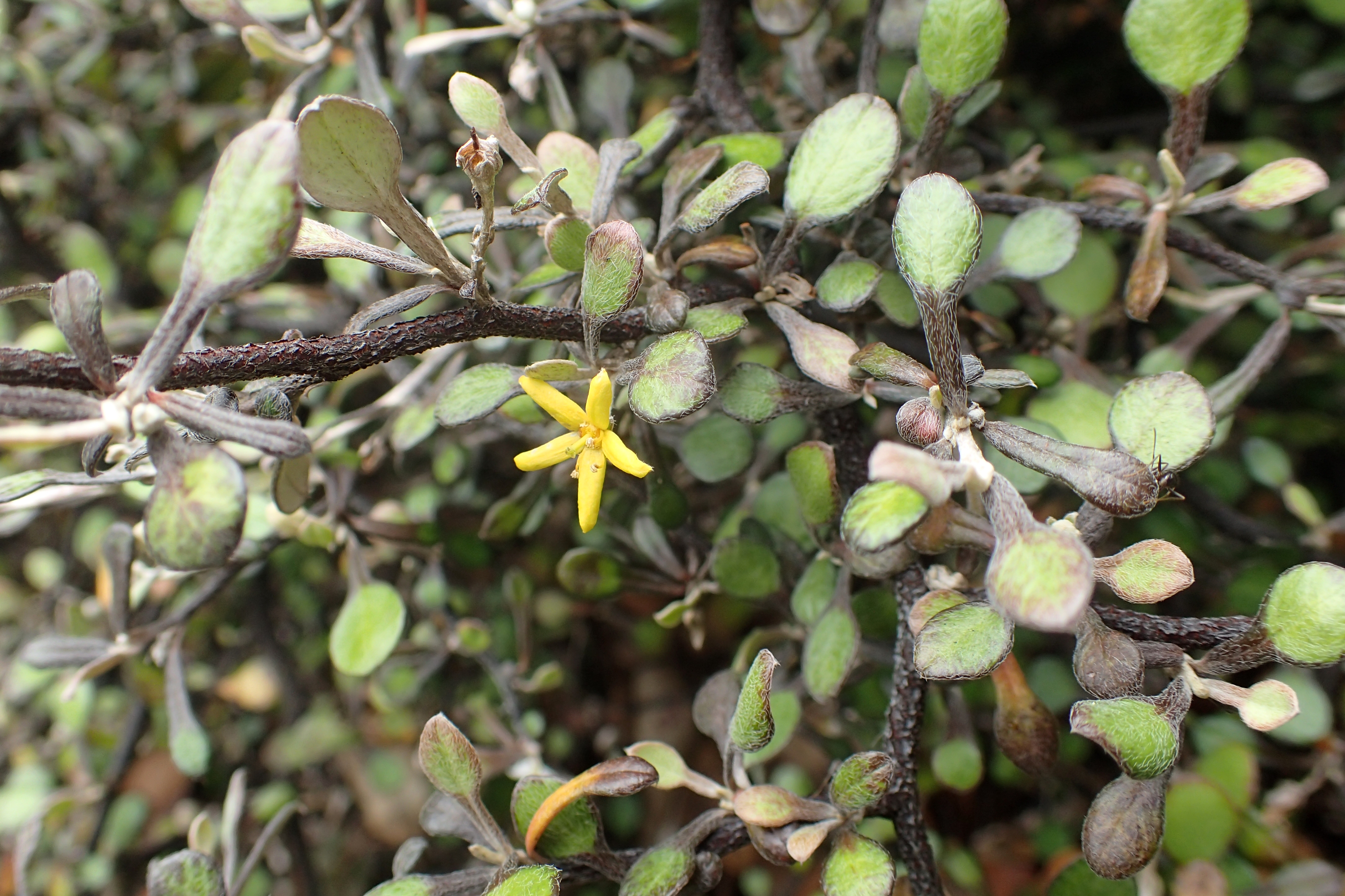 Corokia cotoneaster in Auckland Botanic Gardens